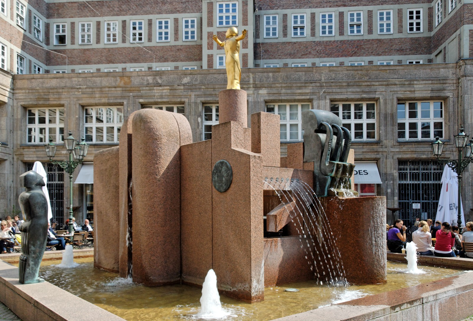 Music Fountain in Düsseldorf-Stadtmitte, Germany